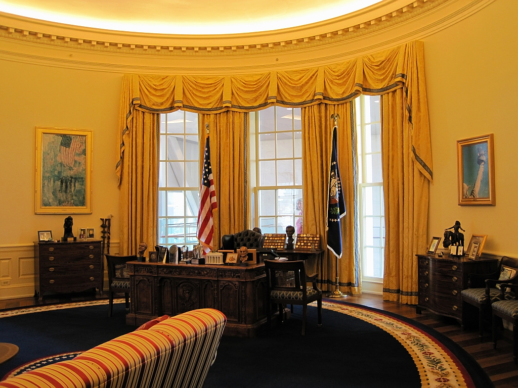 William J. Clinton Presidential Library (interior and exhibit)